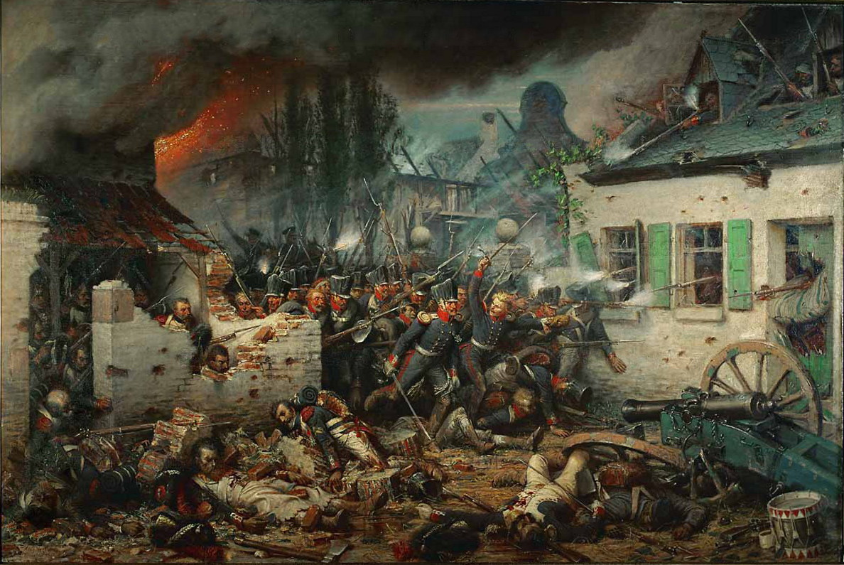 Attack on Plancenoit, during the battle of Waterloo, by Prussian Divisions of Hiller, Ryssel and Tippelskirch which overwhelmed the French Imperial Young Guard and the 1st Battalions of the 2nd Grenadiers and 2nd Chasseurs.